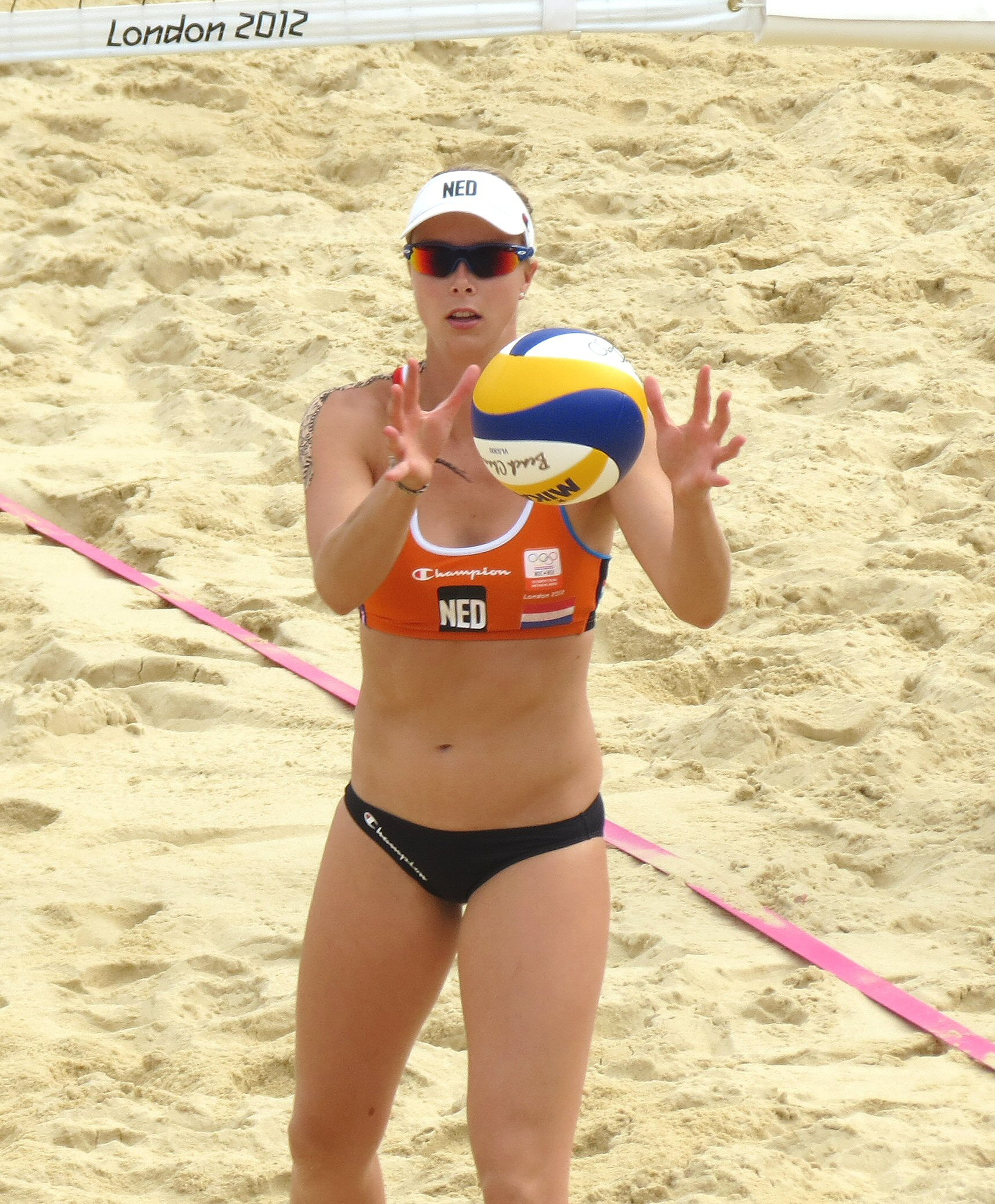 Madelein Meppelink playing for Holland during the London 2012 Olympics